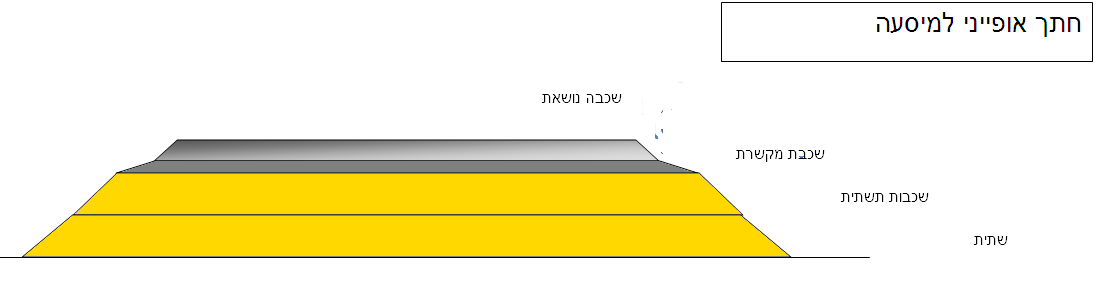 מבנה אופייני של מיסעת כביש